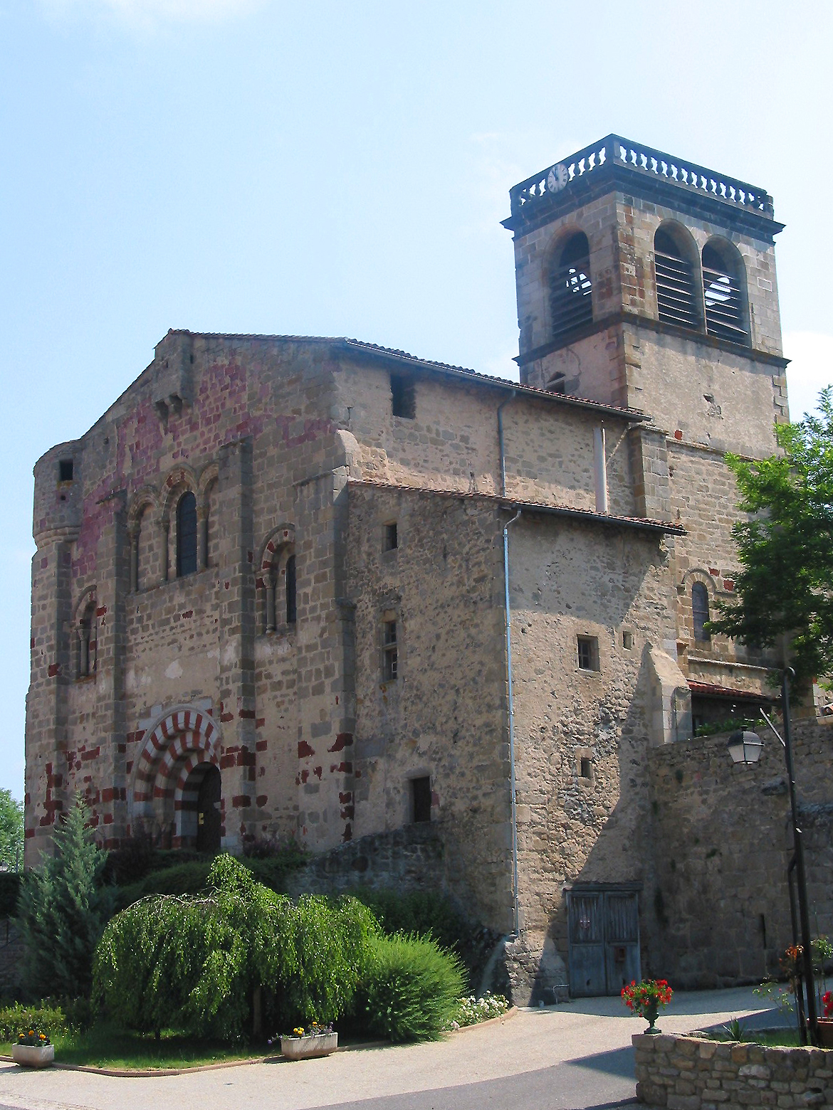 Saint-Dier-d'Auvergne (Puy-de-Dôme - France), the church of Saint-Didier (XIth century).